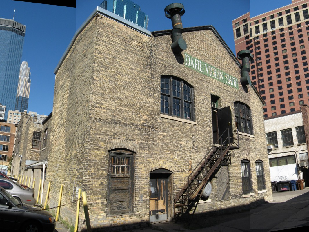 A three-photo collage of the back of the Handicraft Guild Building in Minneapolis, MN, USA.